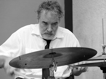 Paul Lovens in Aarhus 2014